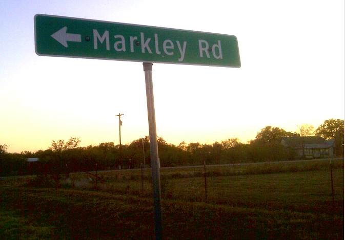 Markley, Texas Road Sign.